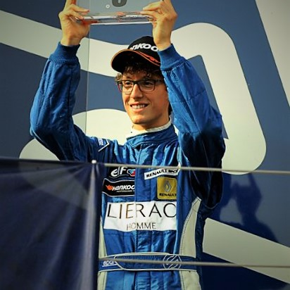 redbull ring podium